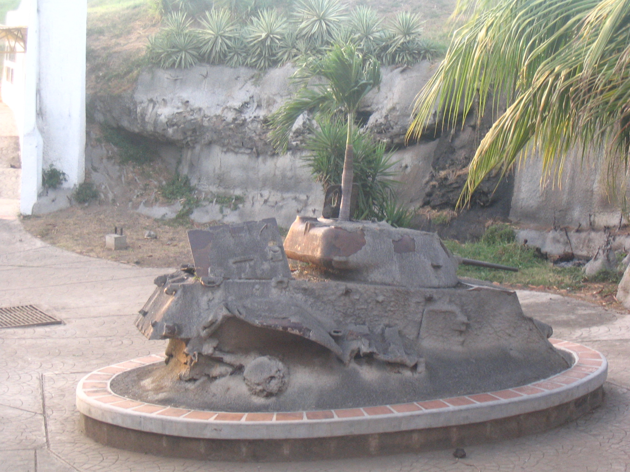 A tank located in Violeta Chamorro's Peace Park in Managua Nicaragua.